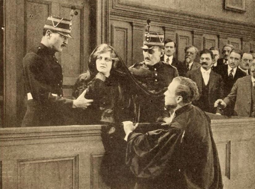 Still from the American drama film Madame X (1920) with Pauline Frederick and Casson Ferguson, on page 100 of the August 21, 1920 Exhibitors Herald.